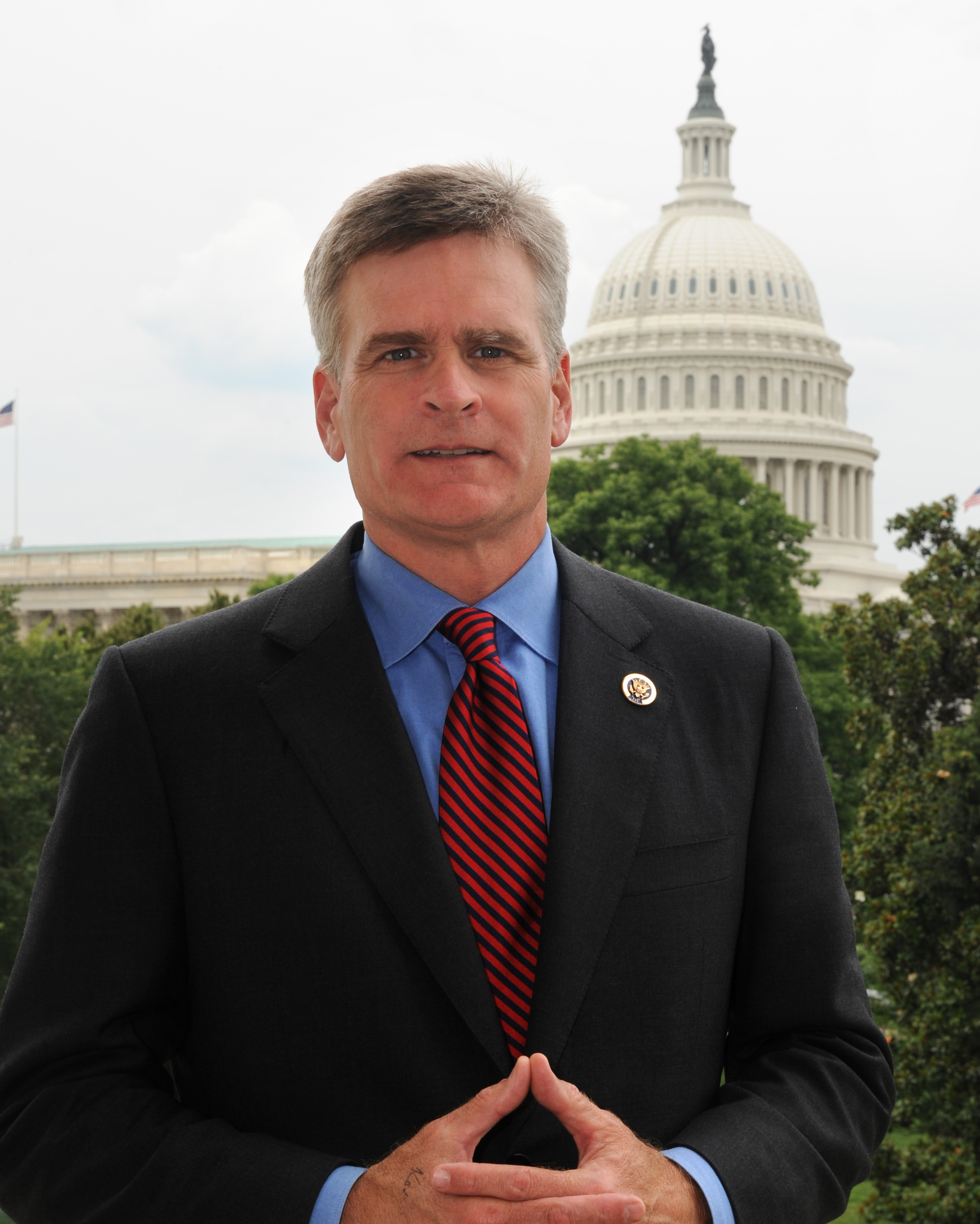 Official portrait of Congressman Bill Cassidy (R-LA)